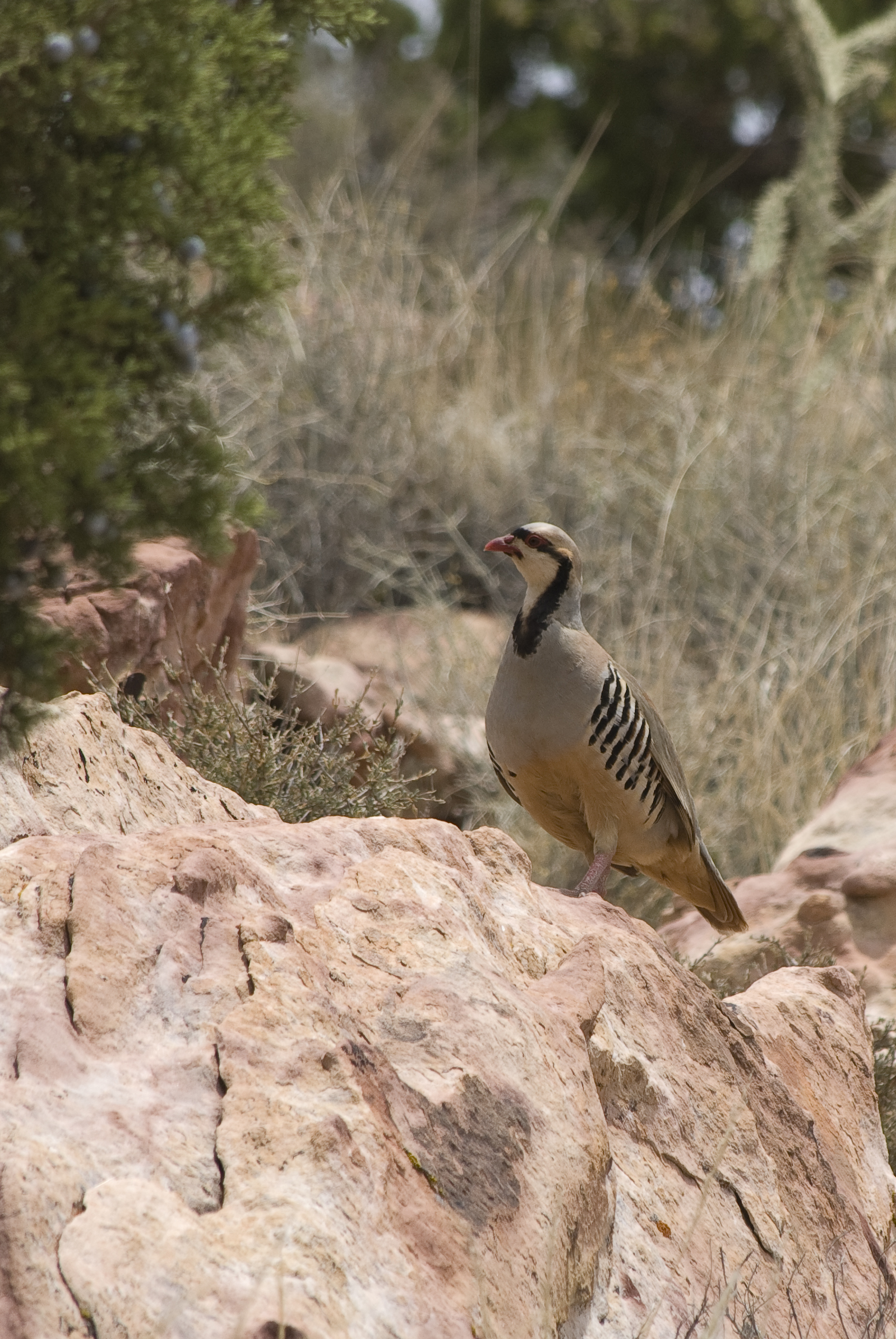 Chukar Partridge